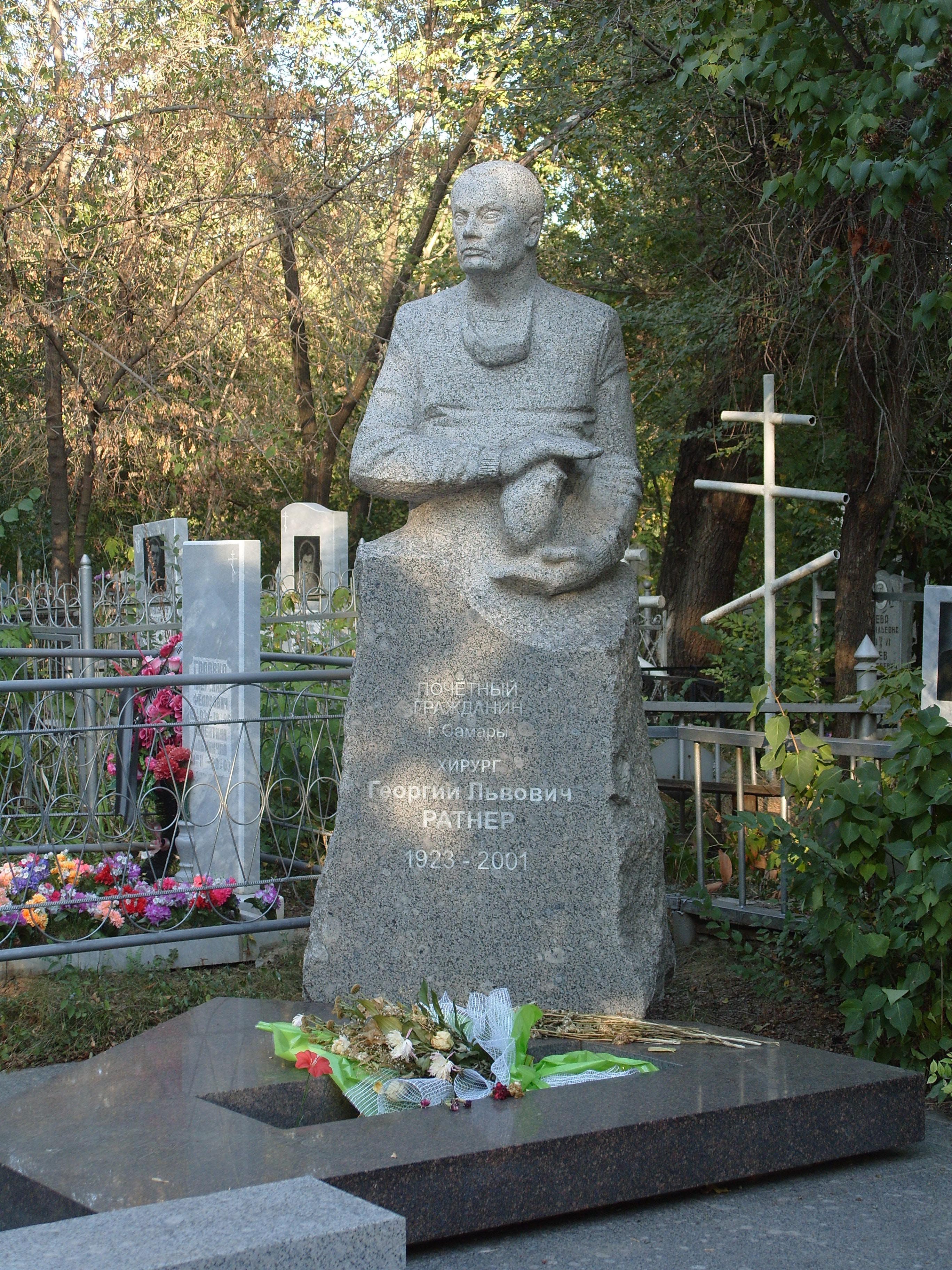 Samara main cemetery, Ratner's monument